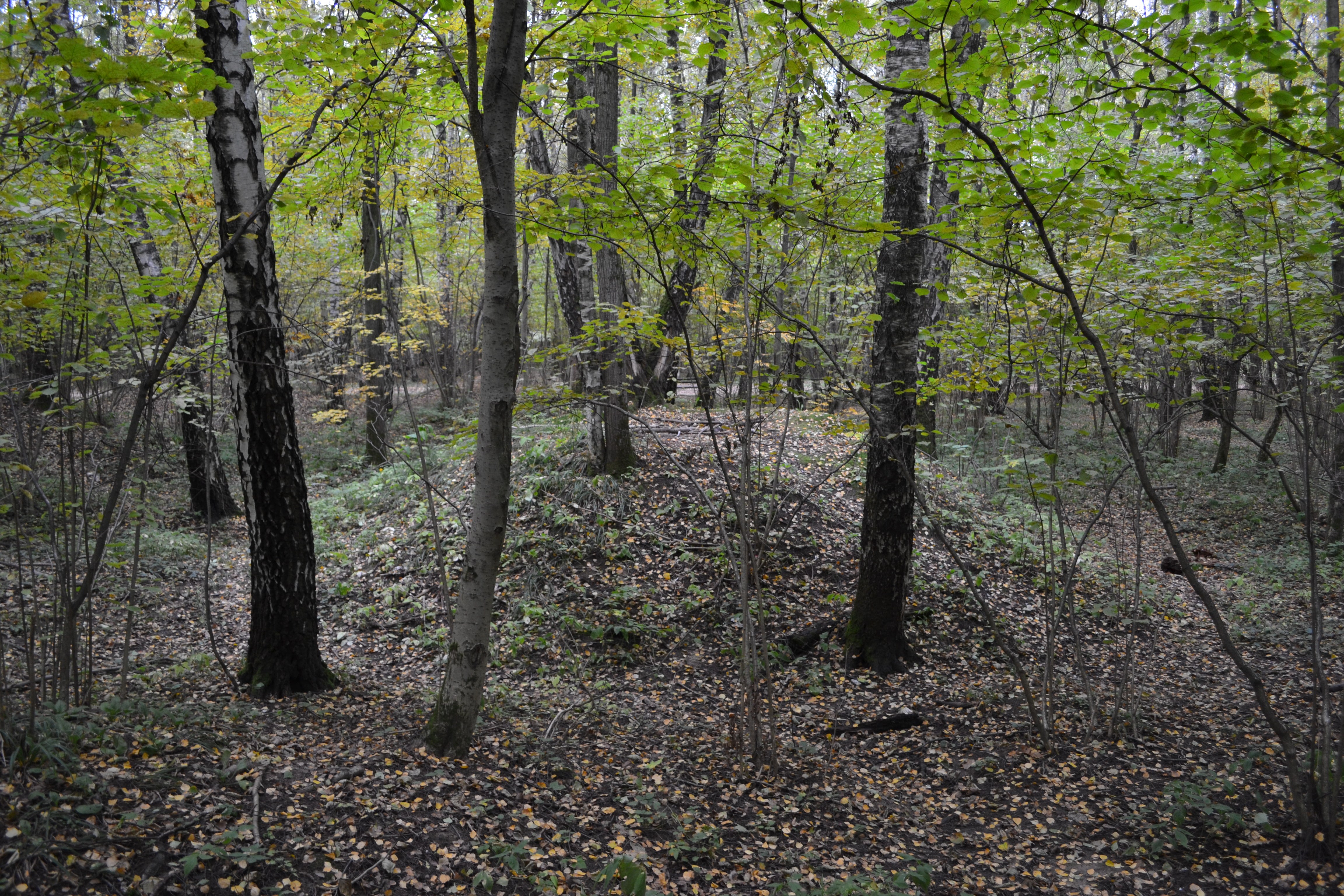 1st Konkovsky burial mound: Landscape Reserve Teply Stan, Southwest District, Moscow